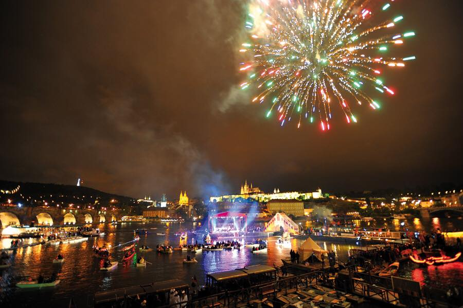 Navalis 2016